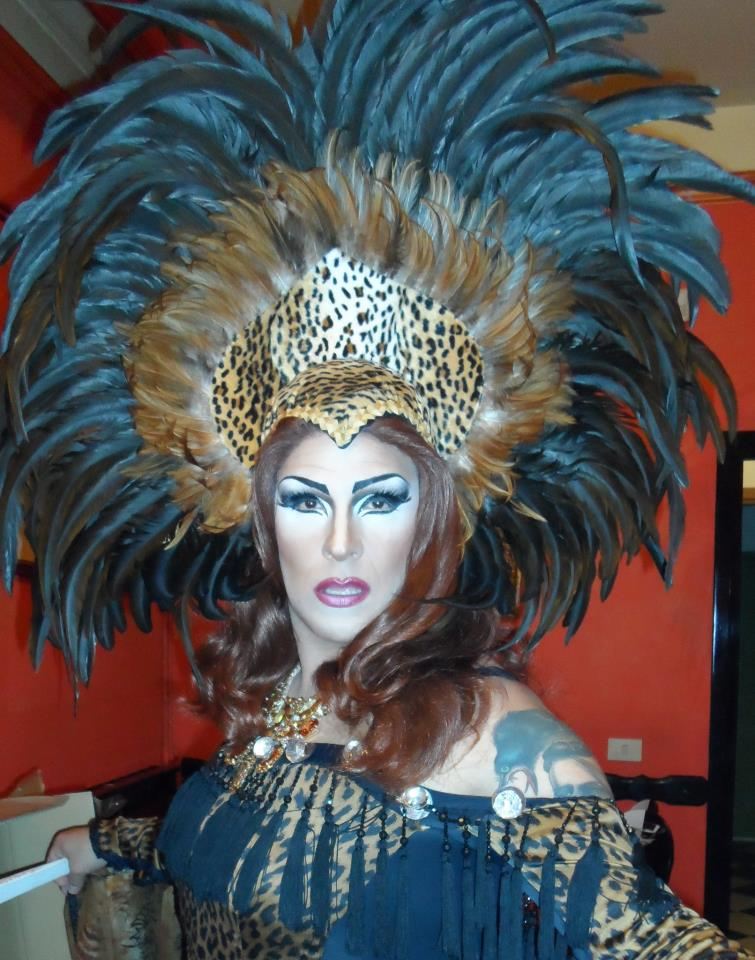 italian drag queen